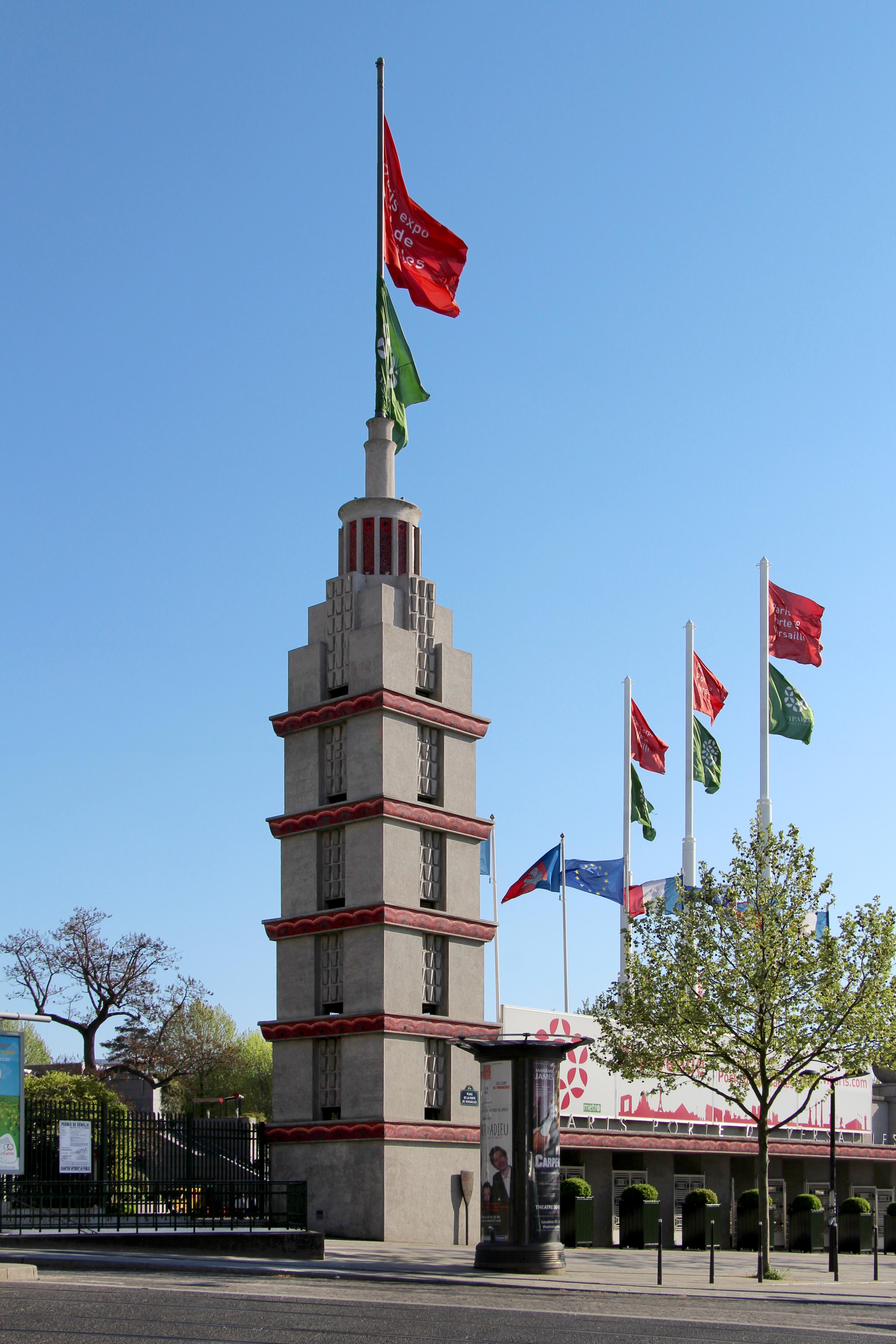 Place de la Porte de Versailles. The first buildings for exhibitions were built in 1923 for the Paris Fair. In 1937, a monumental entrance with four lighted towers, now still visible, is built as part of the World's Fair (Expostion Universelle 1937). Here one of the lighted towers. Arch. Louis-Hippolyte Boileau and Léon Azéma, 1937.